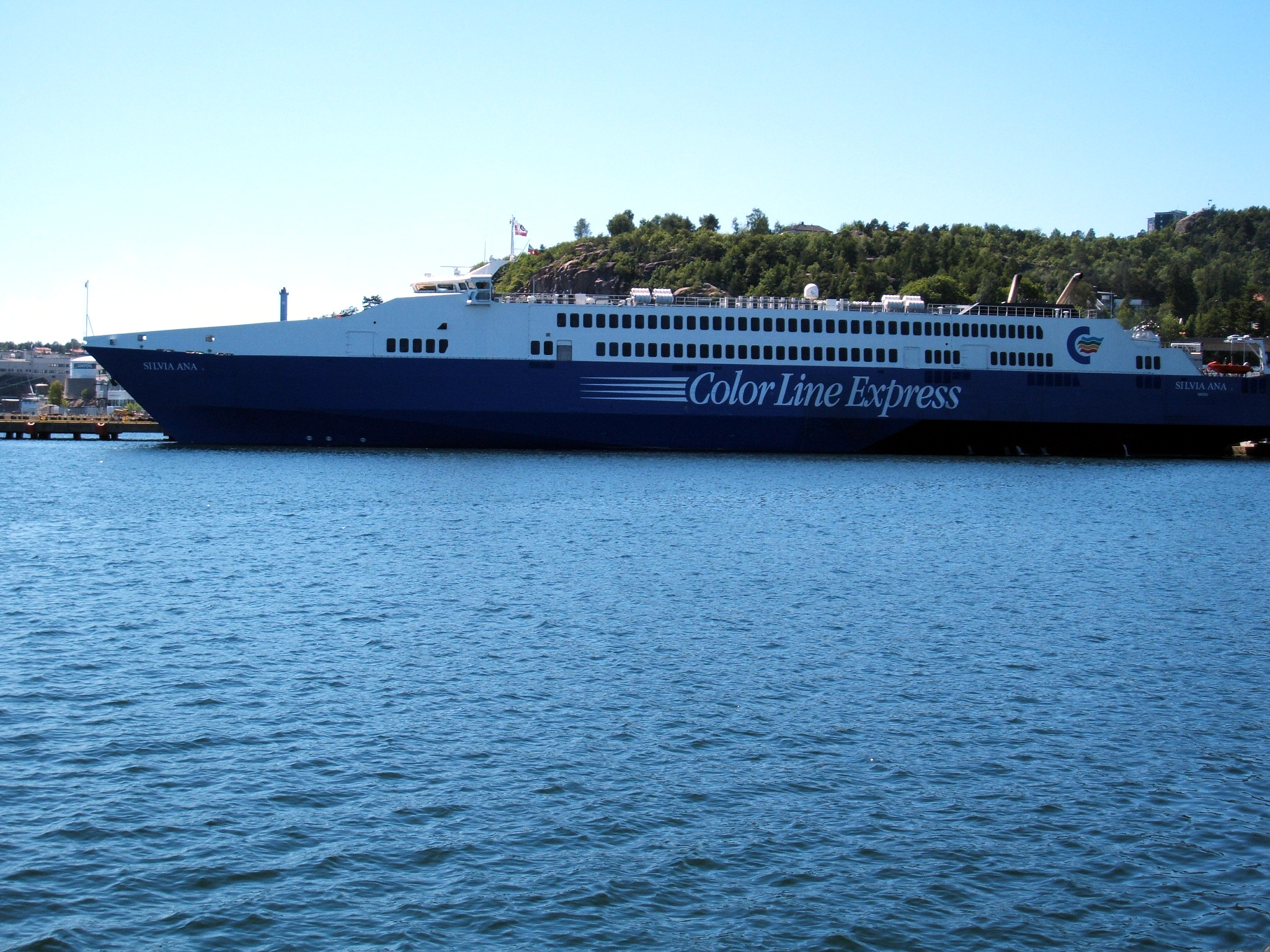 Color Line fast ferry HSC Silvia Ana L in current livery